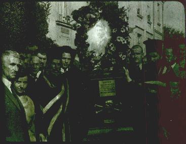 Transfer of the Remanins of Gotse Delchev in Saint Nedelya Church in 1923. Screenshot from the documentary Macedonia in picures by Arseni Yovkov and Georgi Zankov